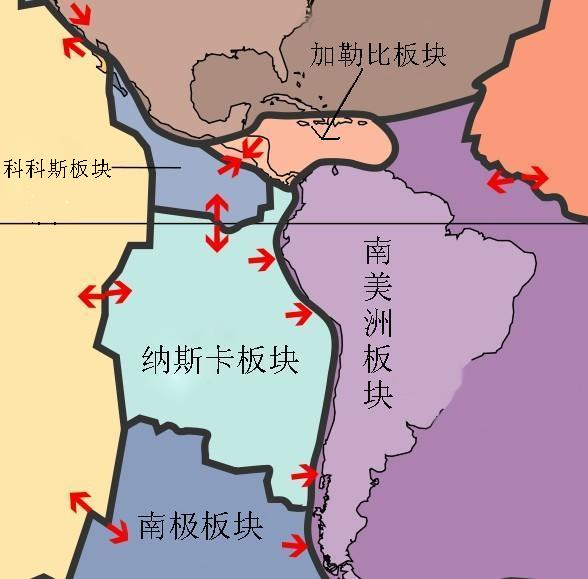 South American plates Simpfield Chinese